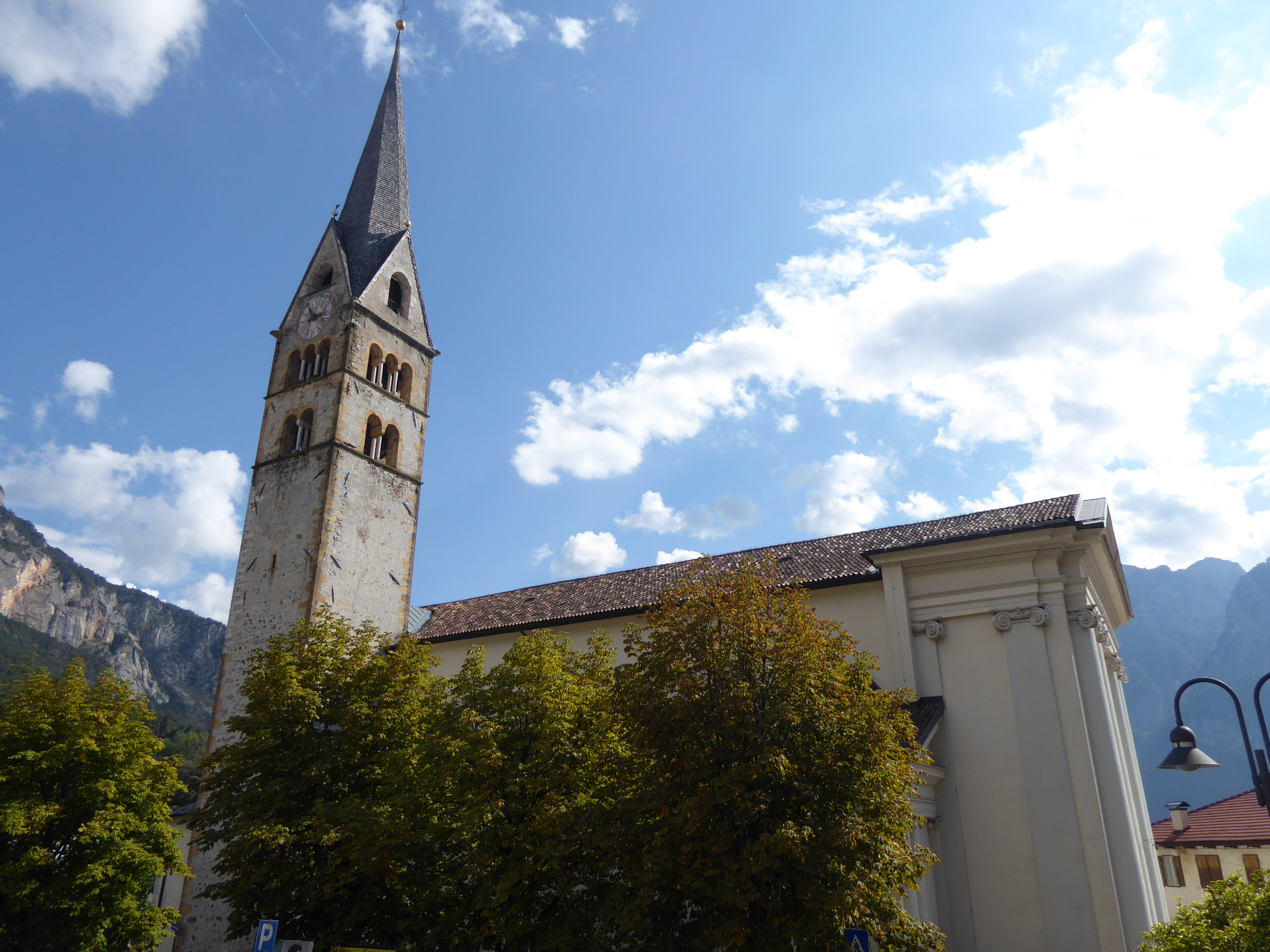 The church of the Immaculate in Strigno (Trentino, Italy)